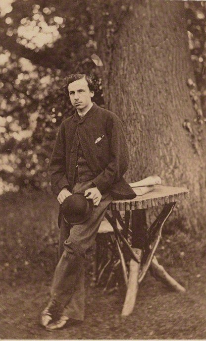 Albumen carte-de-visite of Lord Amberley.